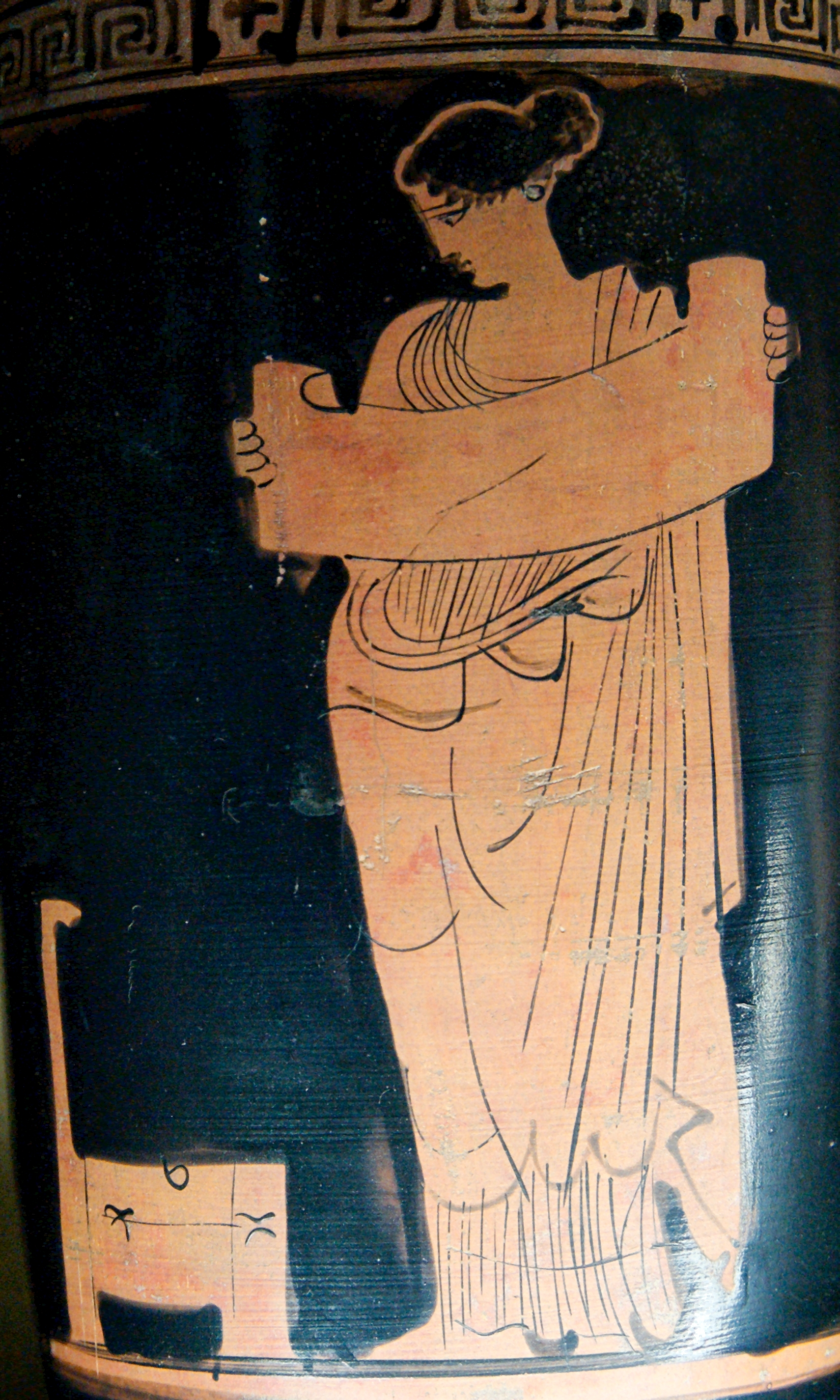 Musa reading a volumen (scroll), at the left an open chest. Attic red-figure lekythos, ca. 435-425 BC. From Boeotia.